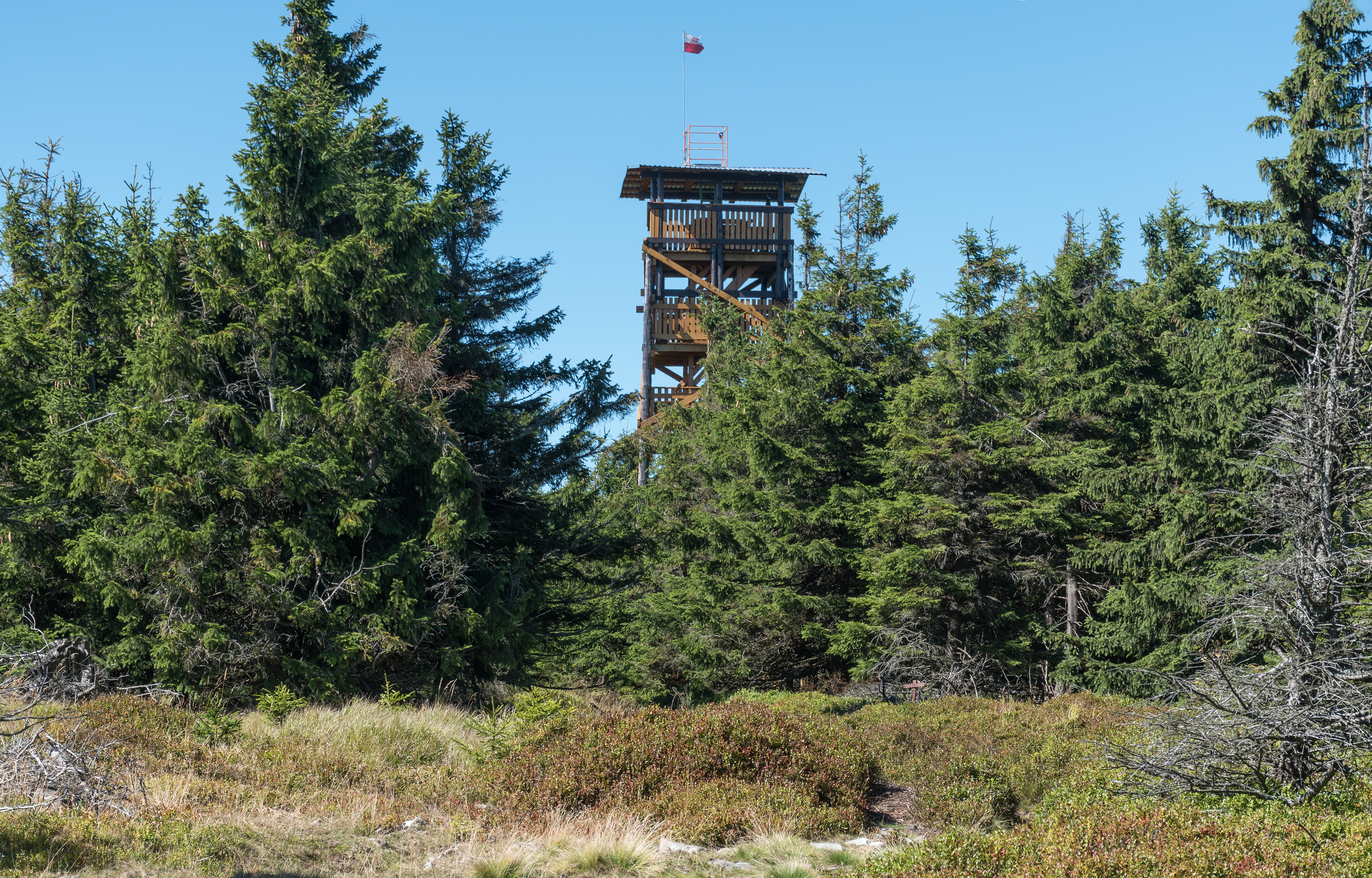 Observation tower on Czernica